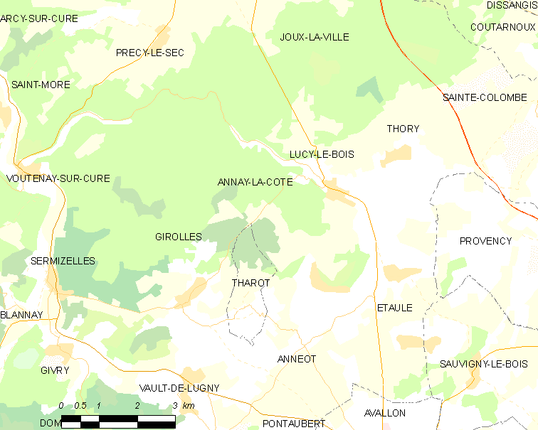 Map of French municipality Annay-la-Côte